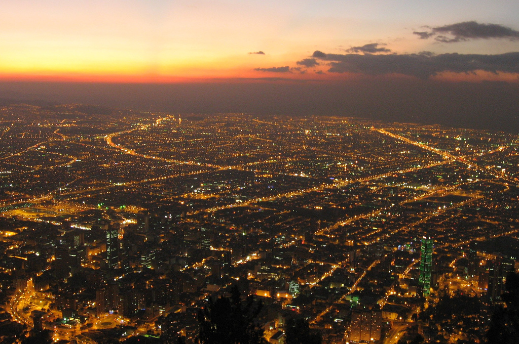 Sunset over Bogota